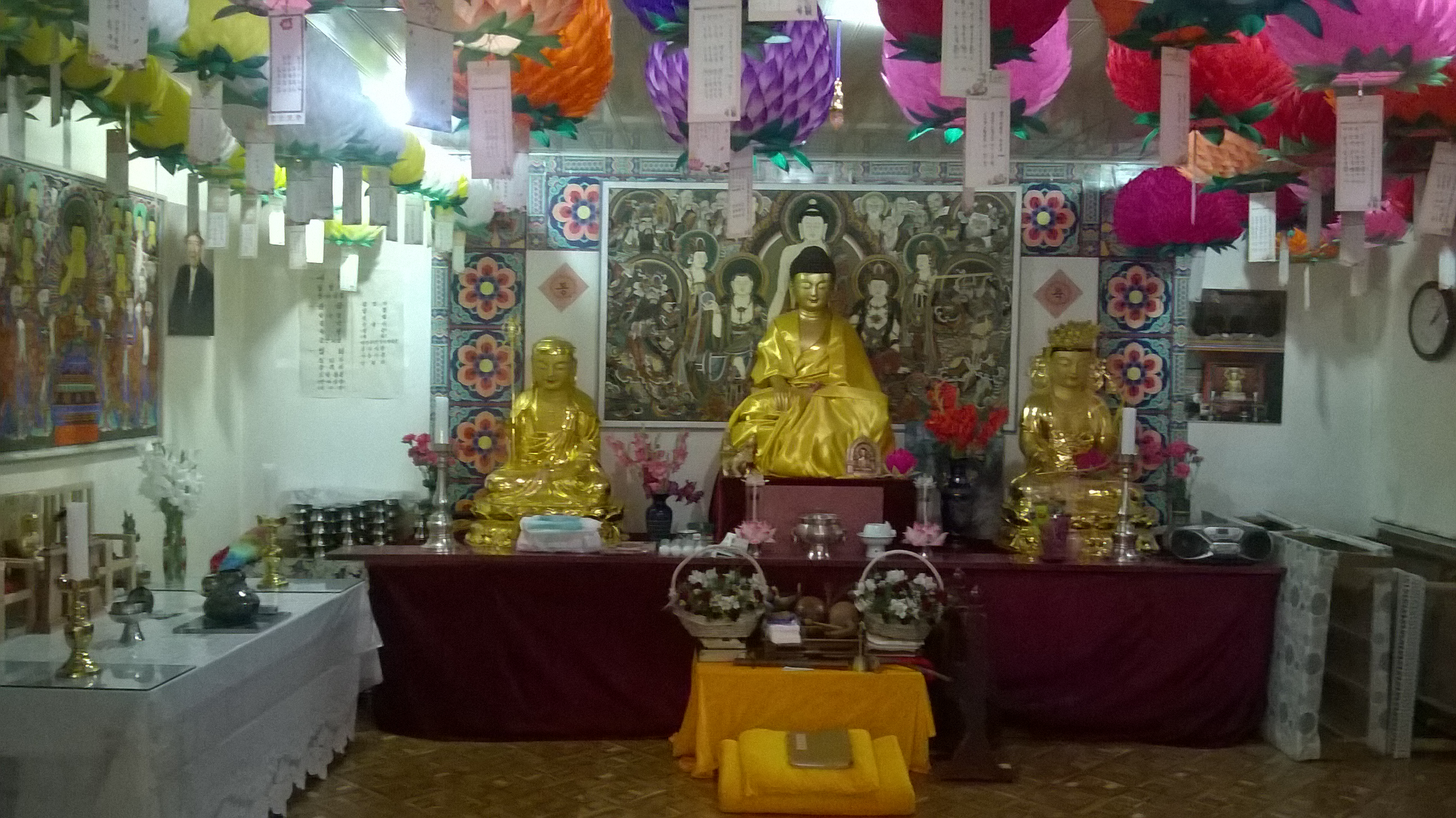 Buddhist template in Tashkent, Uzbekistan. Main room.